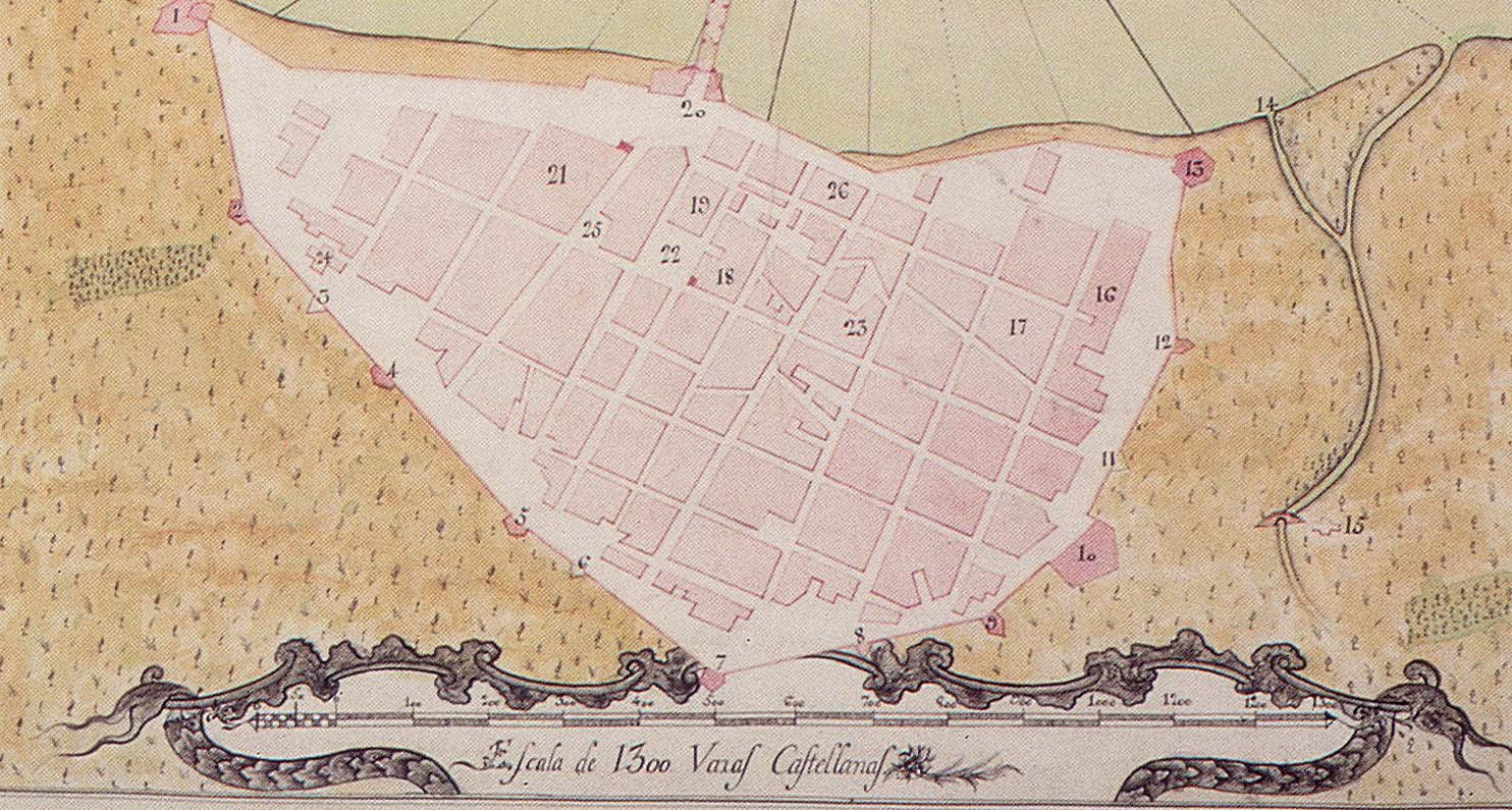 Historical map of Veracruz City (1777) — State of Veracruz. eastern Mexico.